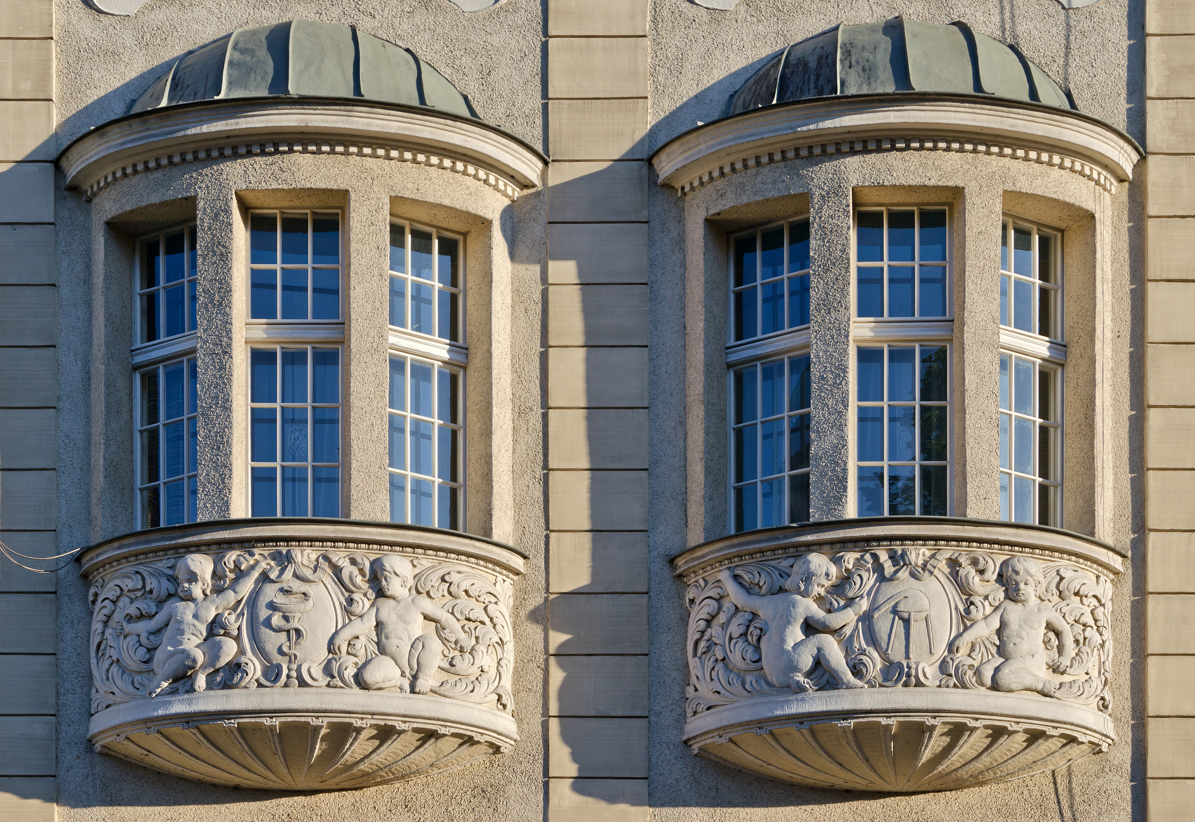 13 Bolesława Chrobrego Square in Kłodzko Ta fotografia przedstawia zabytek wpisany do rejestru zabytków pod numerem ID 592716